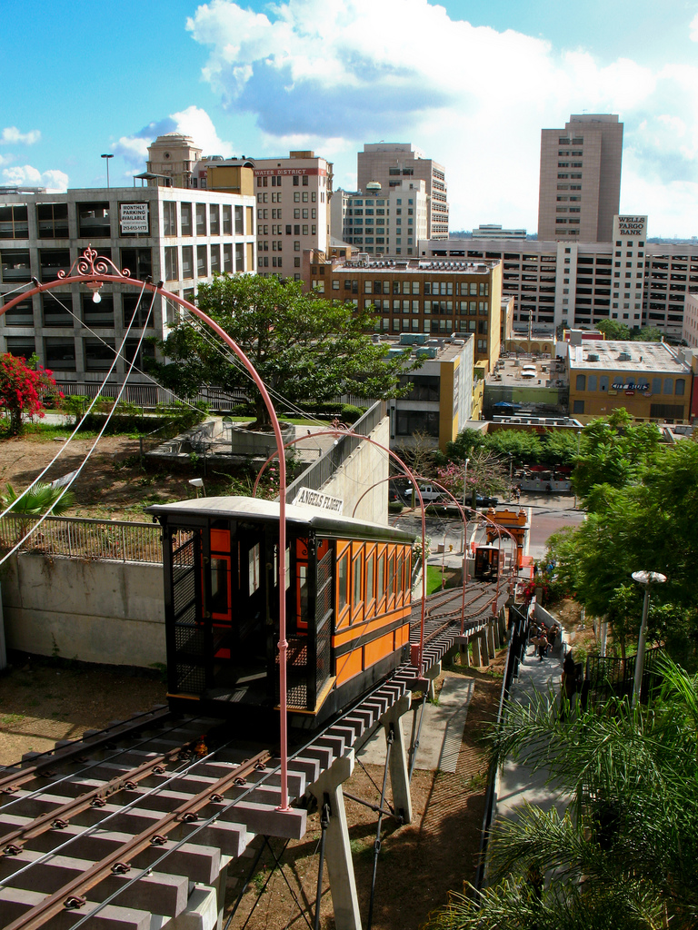 Angels Flight from Bunker Hill, looking east toward the Historic Core of Downtown Los Angeles